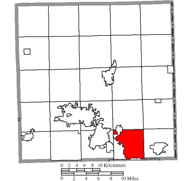 Map of the municipal and township boundaries of Trumbull County, Ohio, United States, as of the 2000 census, with the location of Liberty Township highlighted. Township borders are shown only in unincorporated areas in order to differentiate incorporated and unincorporated areas more clearly.